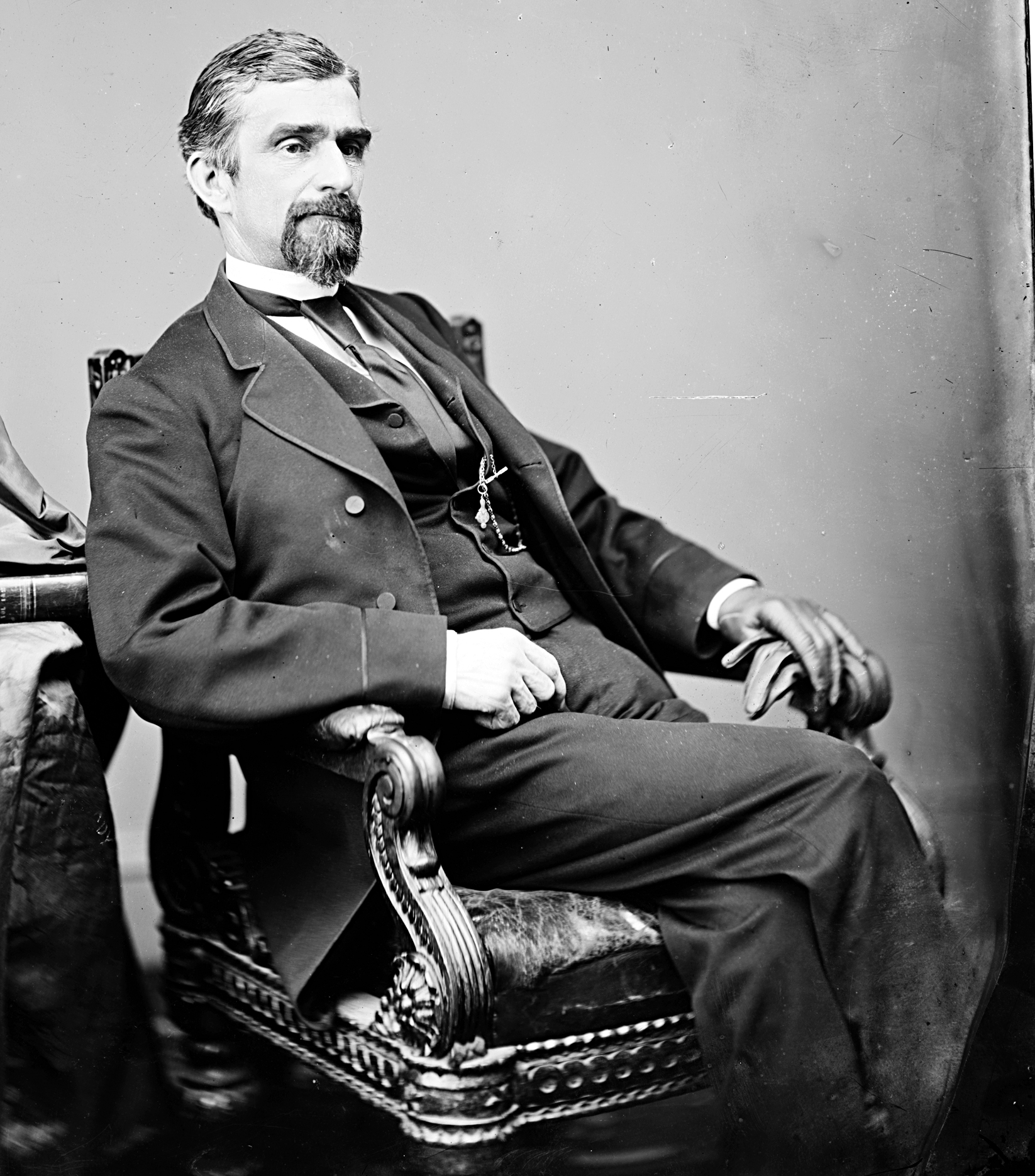 George M. Brooks, US Representative from Massachusetts